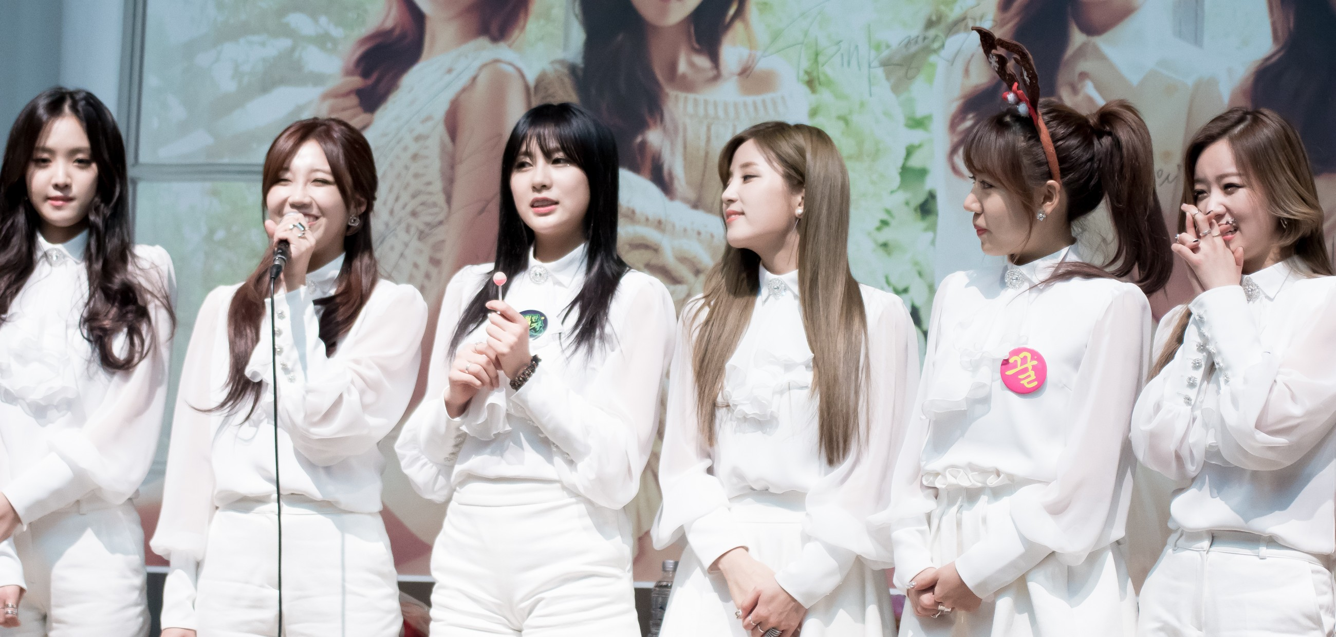 A Pink at a fansigning in Mokdong on 7 December 2014. Left to right: Naeun, Eunji, Hayoung, Chorong, Namjoo and Bomi.